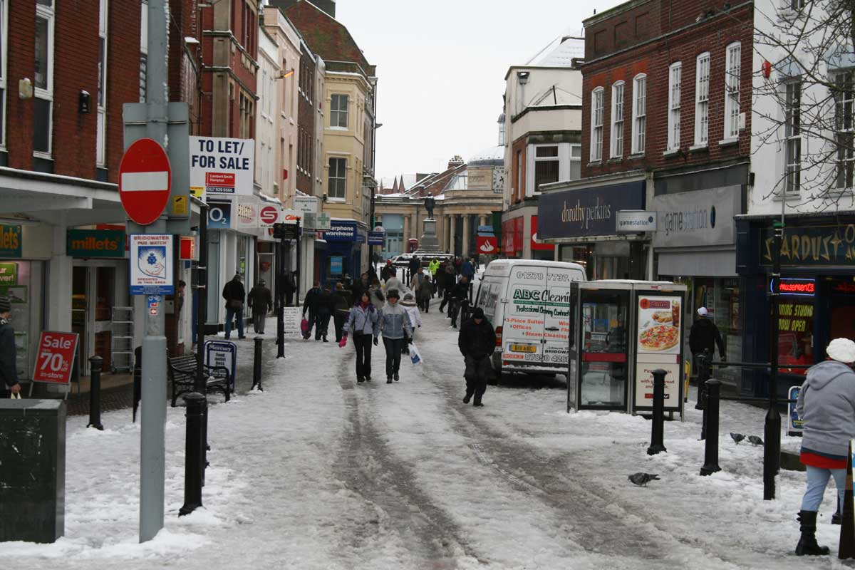 Light covering of snow in Fore Street, Bridgwater, Somerset, UK